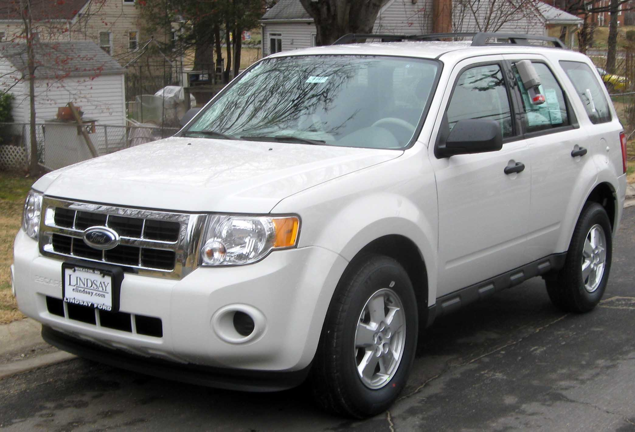 2009 Ford Escape photographed in Wheaton, Maryland, USA.